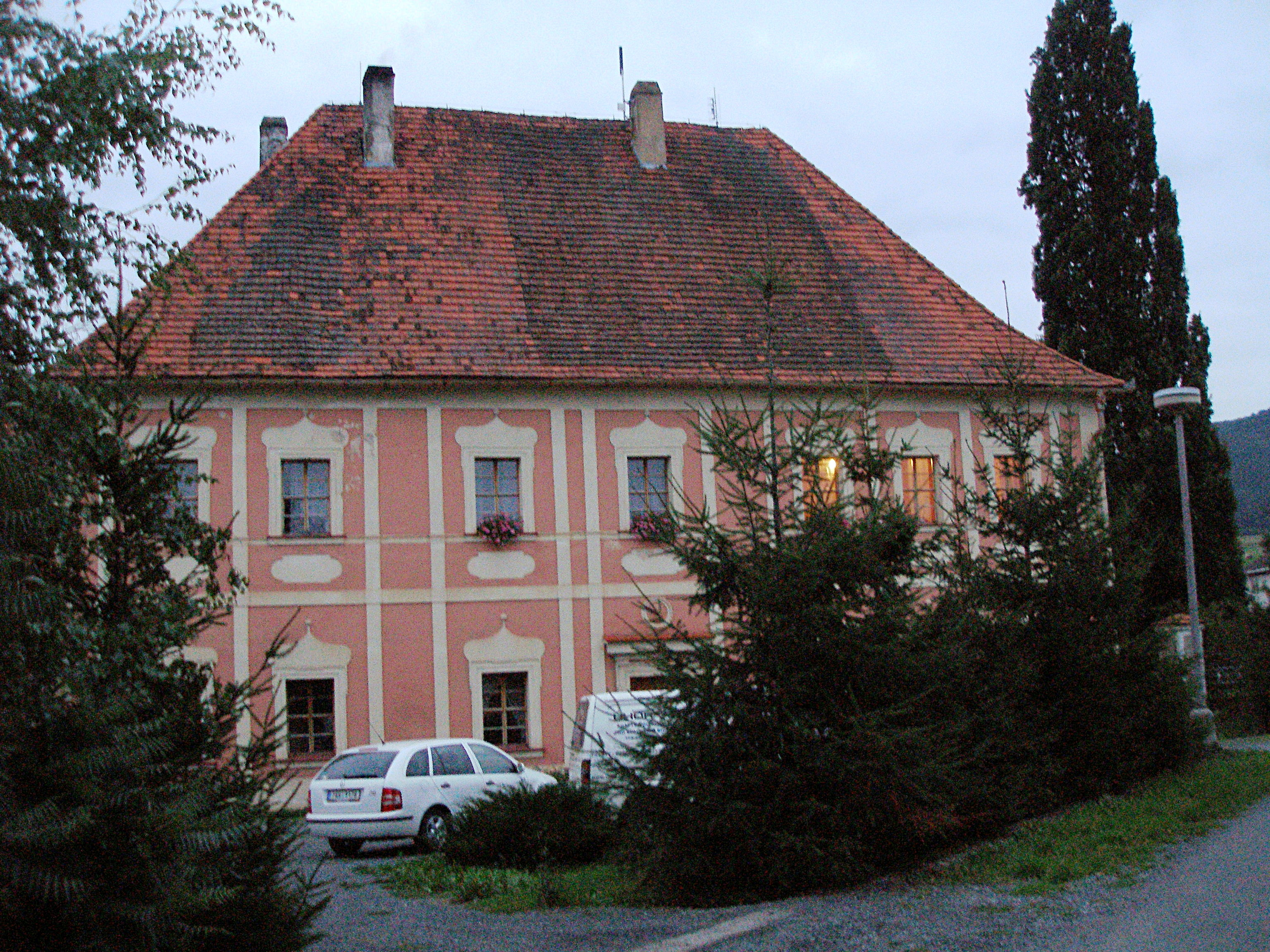 The castle in Ježovy